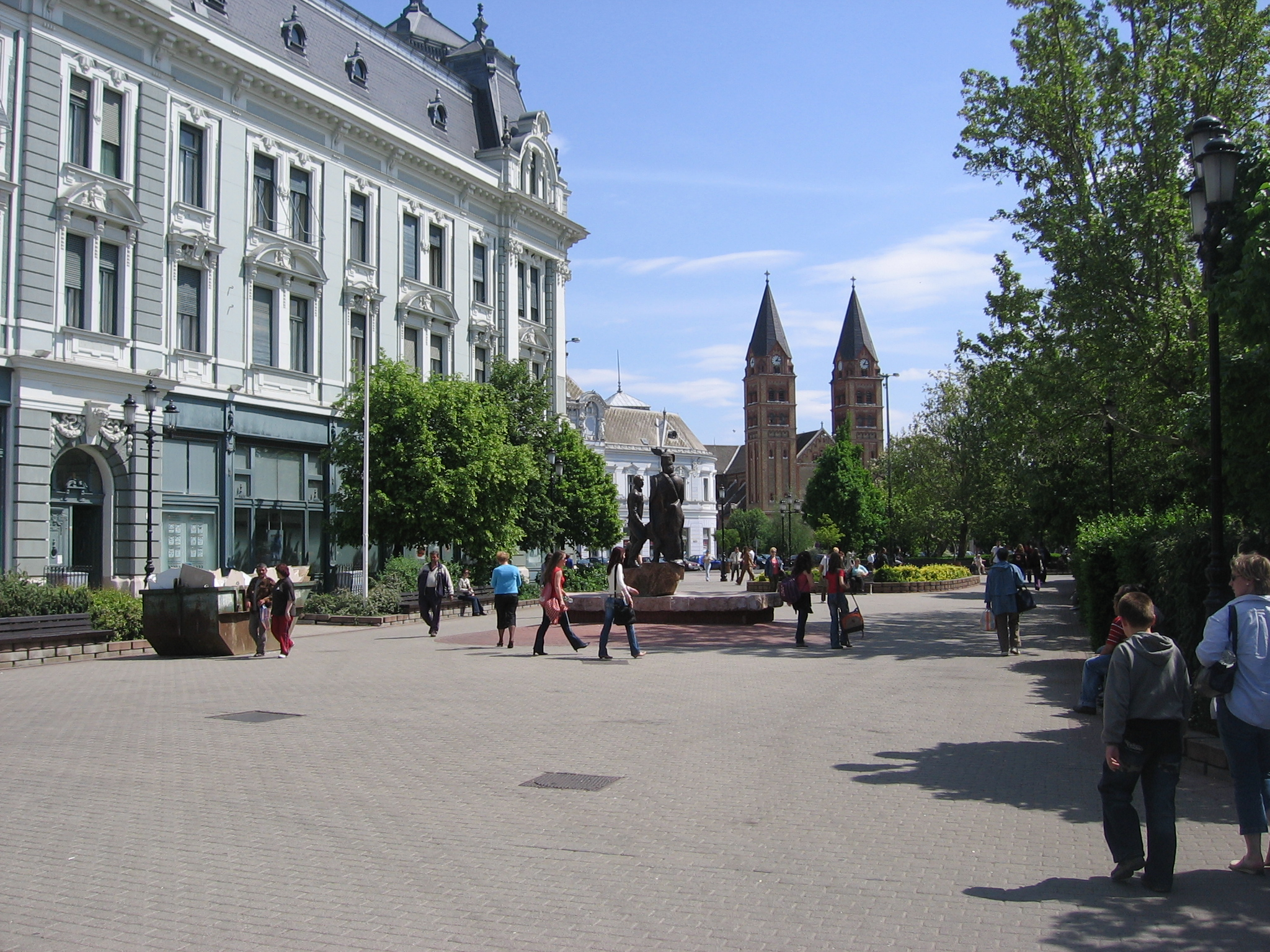 Main square (Kossuth ter? - I'm not sure) in Nyíregyháza Główny plac Nyíregyháza (chyba Kossuth ter)